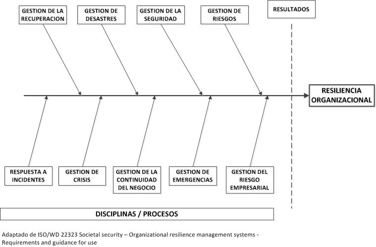 modelo integrador